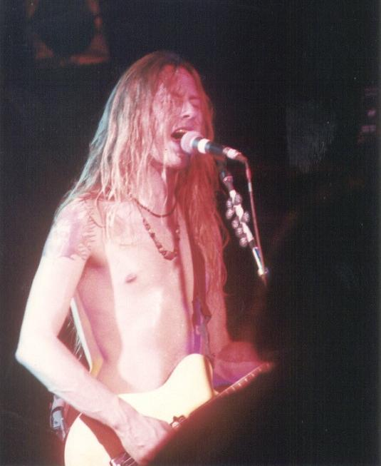 Jerry Cantrell playing with Alice in Chains at The Channel in Boston, MA.